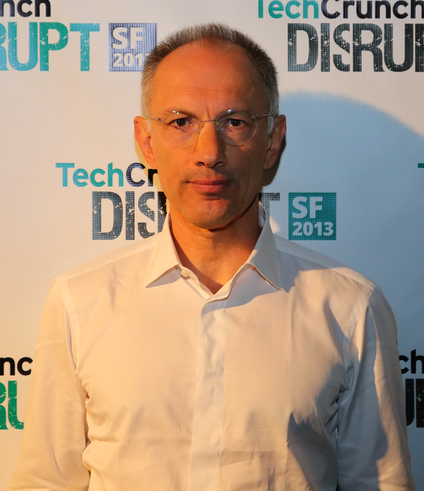 Michael Moritz at Techcrunch Disrupt SF 2013. Photo by Max Morse for Techrunch.